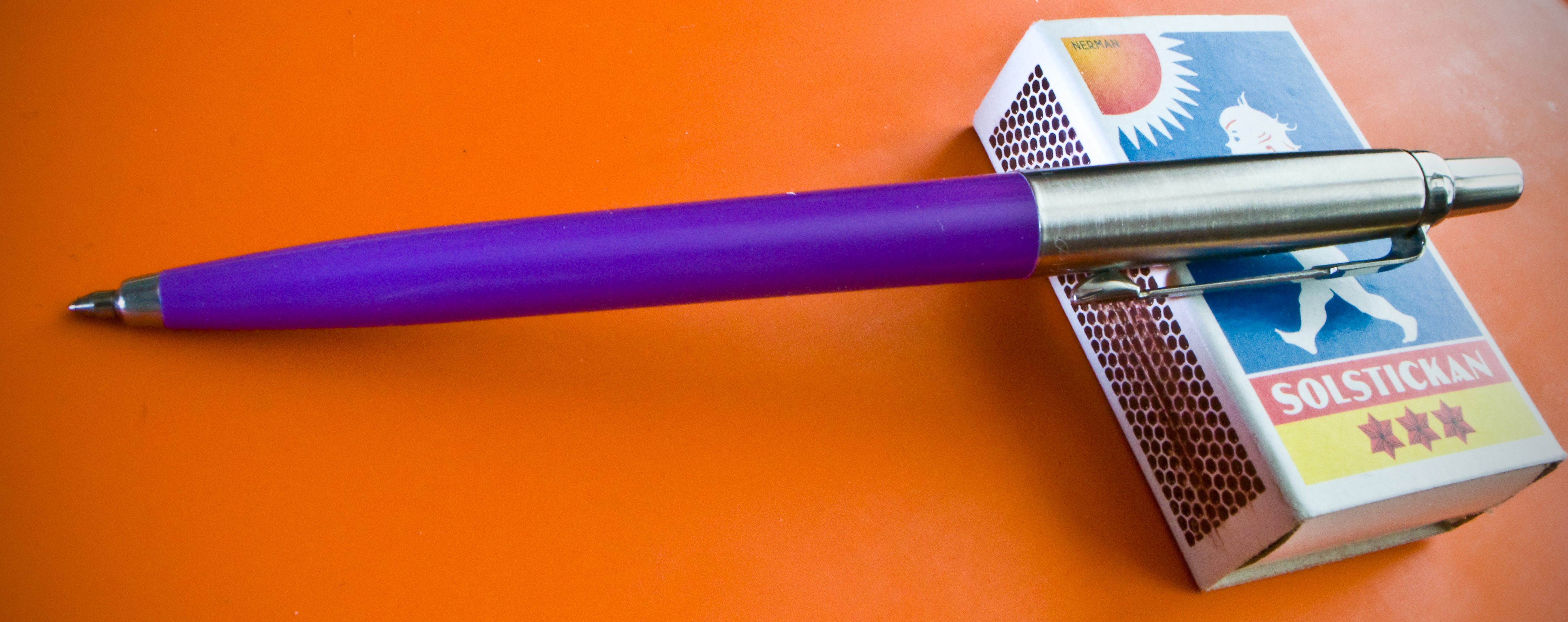 Limited 2004-edition Parker Jotter with dome shaped button and purple barrel. The first ballpoint pen from Parker was introduced in January 1954 under the name Jotter. It was advertised with the fact that its barrel could endure a load of 400 lb (181 kg) when stepped on. With the also introduced G2 large capacity ink cartridge with a slow wearing tip it could write five times longer than conventional ballpoint pens of the period.